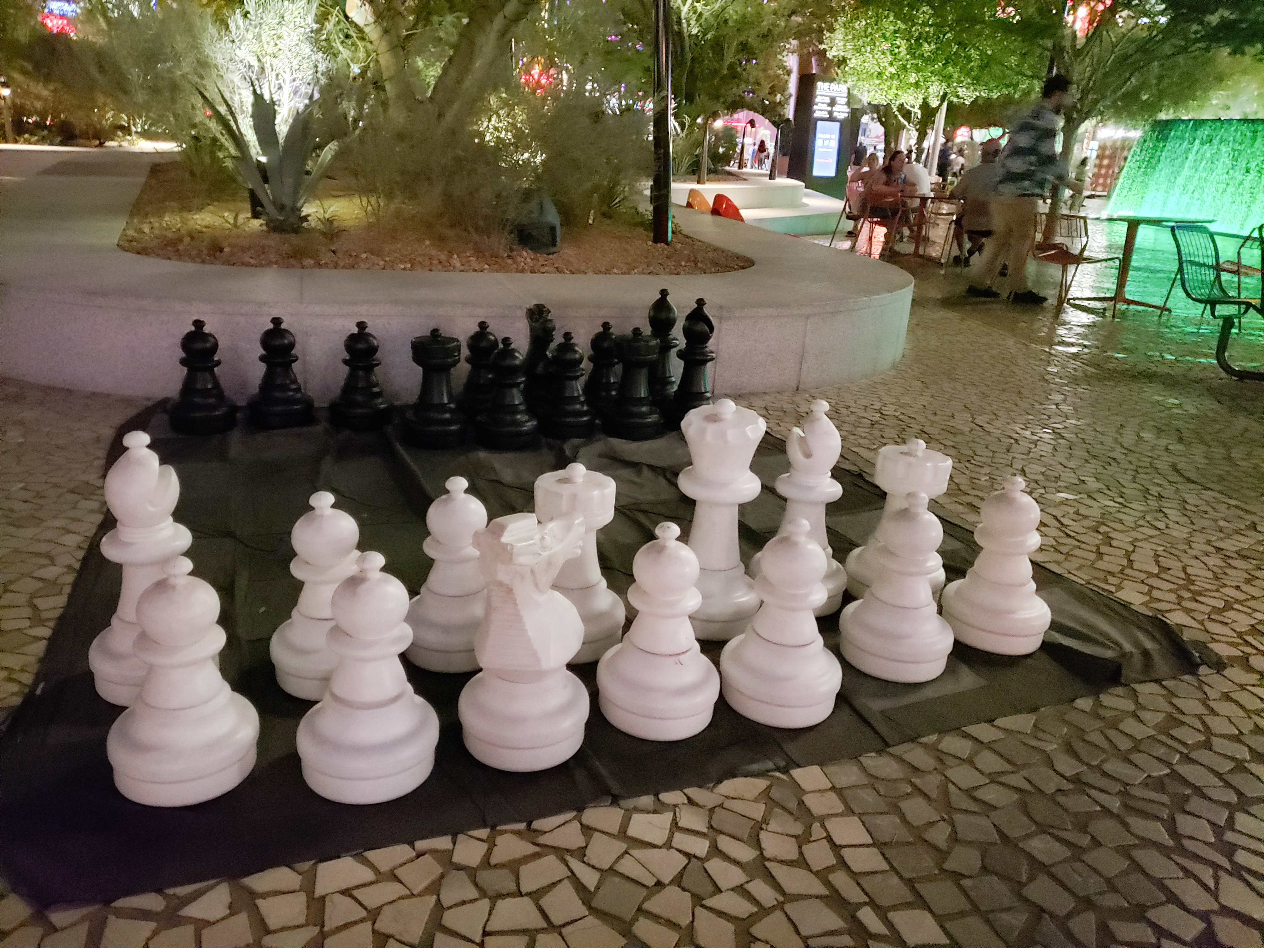 Giant chess game at The Park in Las Vegas.